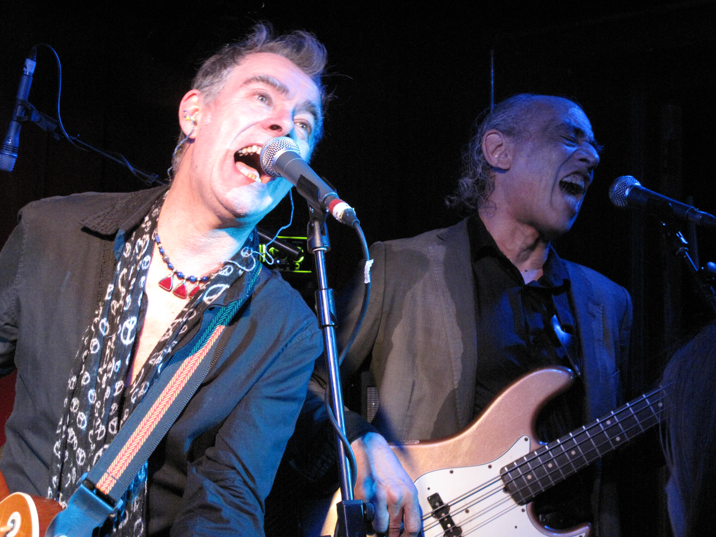 JohnTurnbull and Norman Watt-Roy at Water Rats, London, 13.07.11